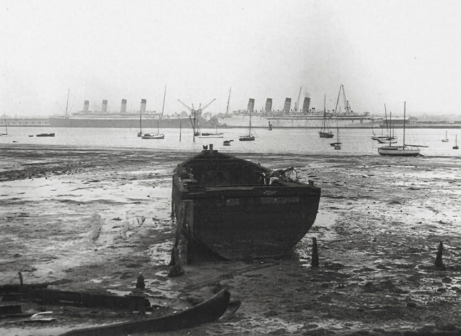 Olympic (left) and Mauretania (right) at Southampton in 1935 awaiting their final voyage to the breakers yard. Mauretania departed July 1, 1935 for Rosyth, Scotland and was scrapped.